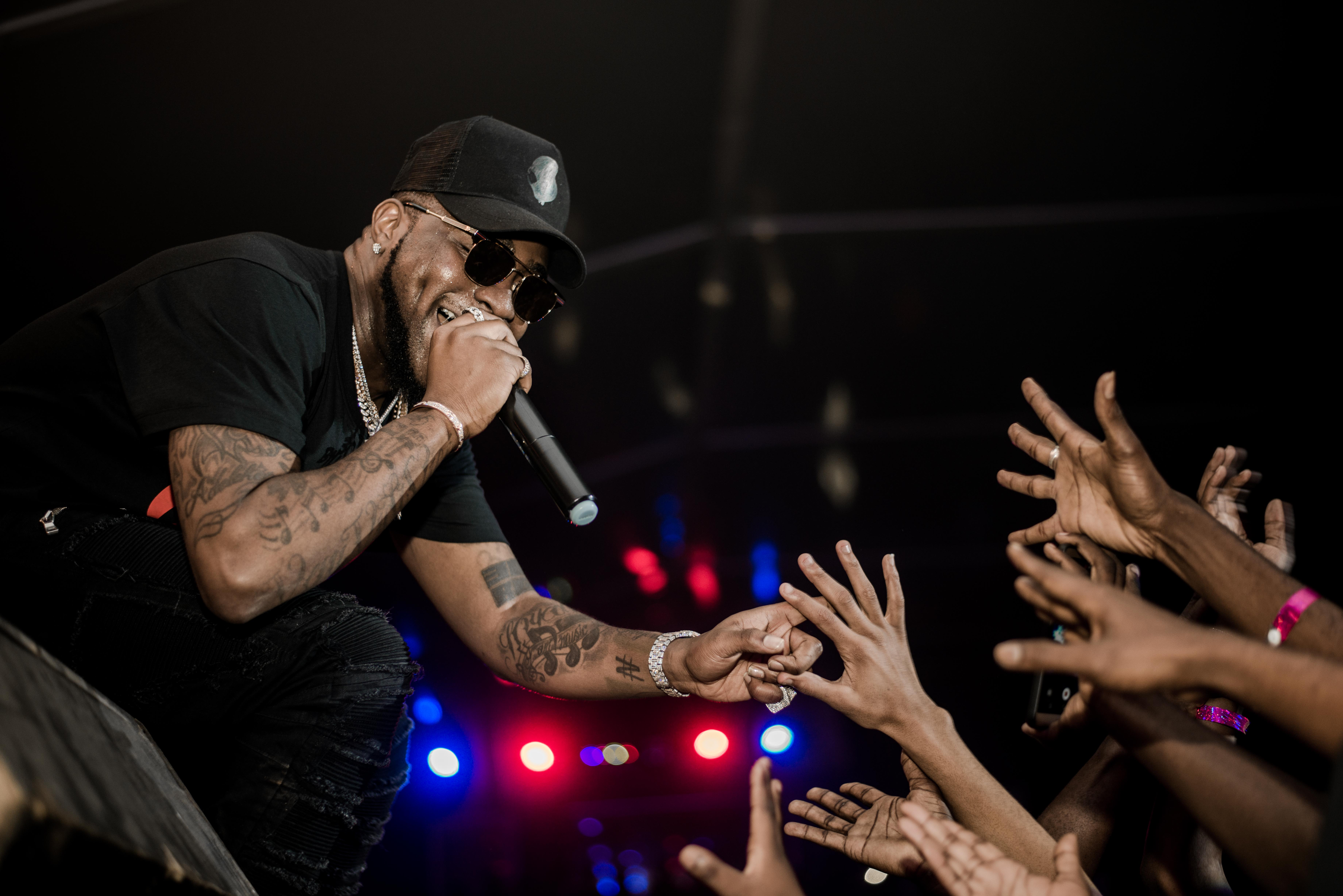 This is an image with the theme "Play" from: Tanzania